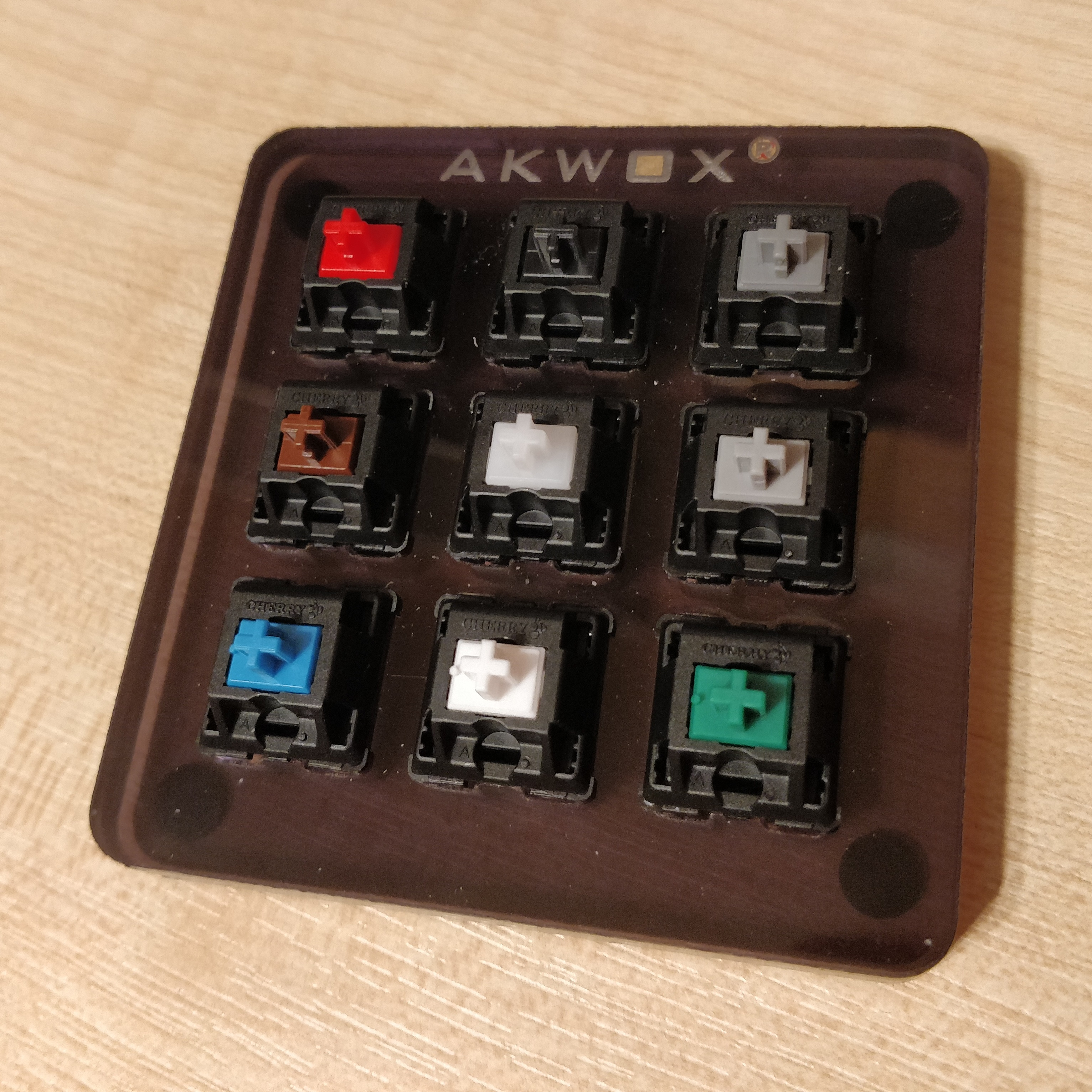 A sample board of 9 Cherry MX switches by Akwox Inc, showing the following switches: Top row (linear): Red, black, and linear grey Middle row (tactile): Brown, clear, and tactile grey Bottom row (clicky): Blue, white, and green